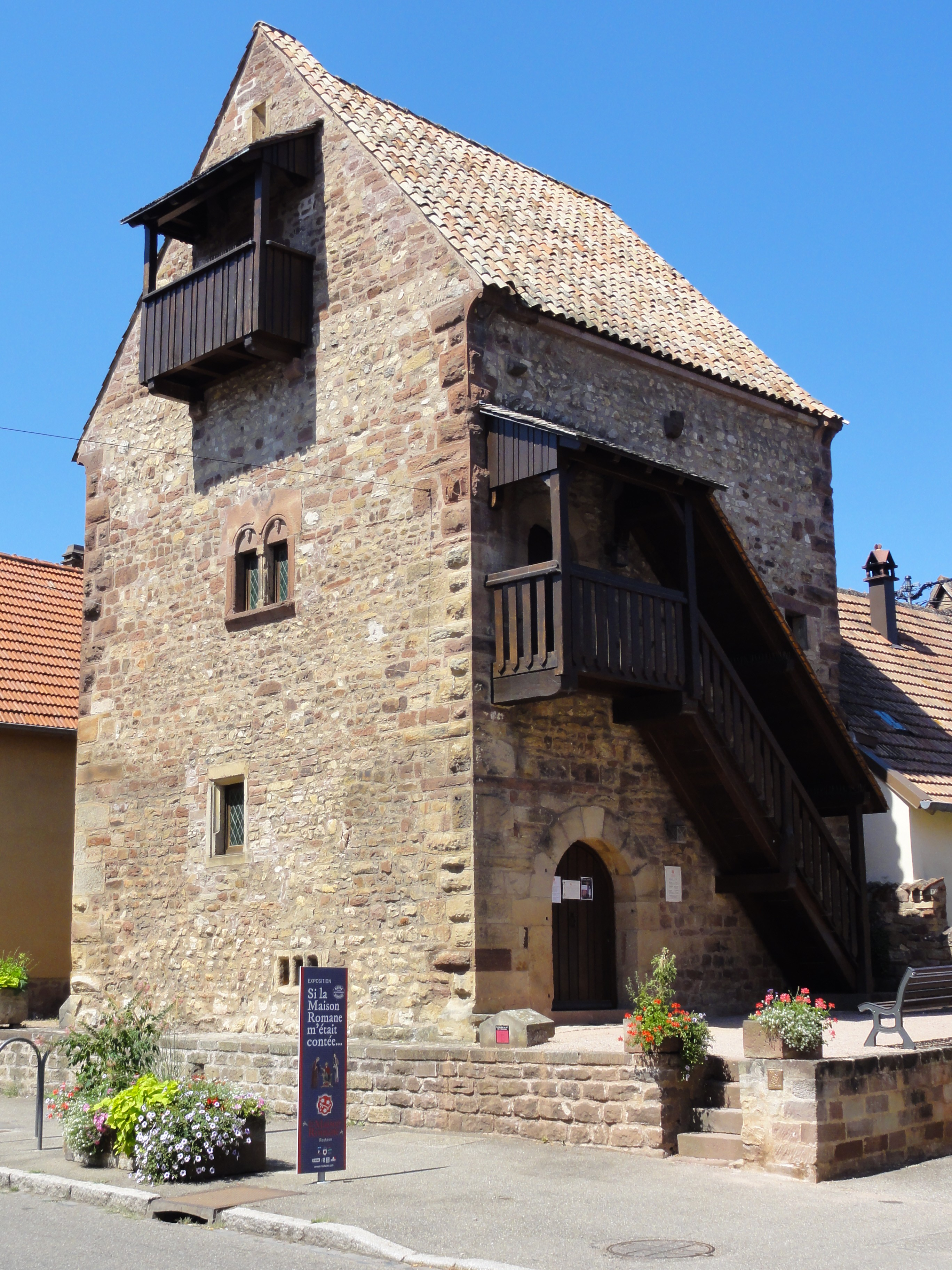 Alsace, Bas-Rhin, Rosheim, Maison dite romane (XIIe): It is indexed in the Base Mérimée, a database of architectural heritage maintained by the French Ministry of Culture, under the references PA00084911 and IA00075679 .